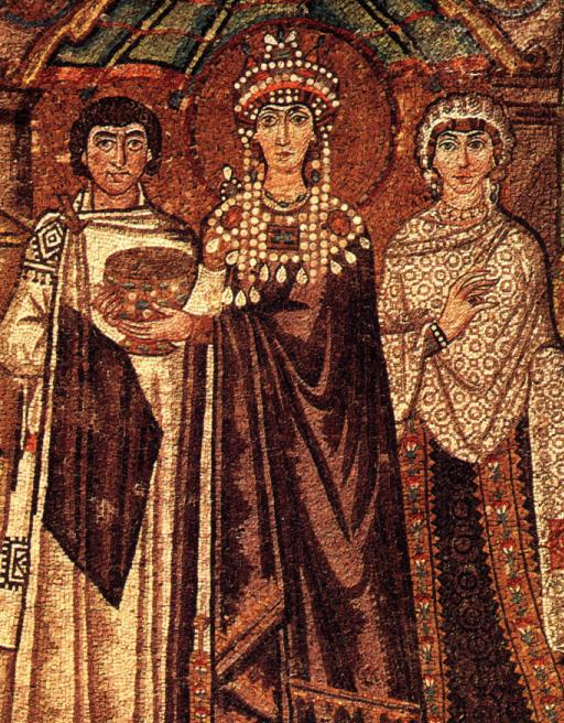 Byzantine mosaic depicting Empress Theodora (6th century) flanked by a chaplain and a court lady believed to be her confidant Antonina, wife of general Belisarius.